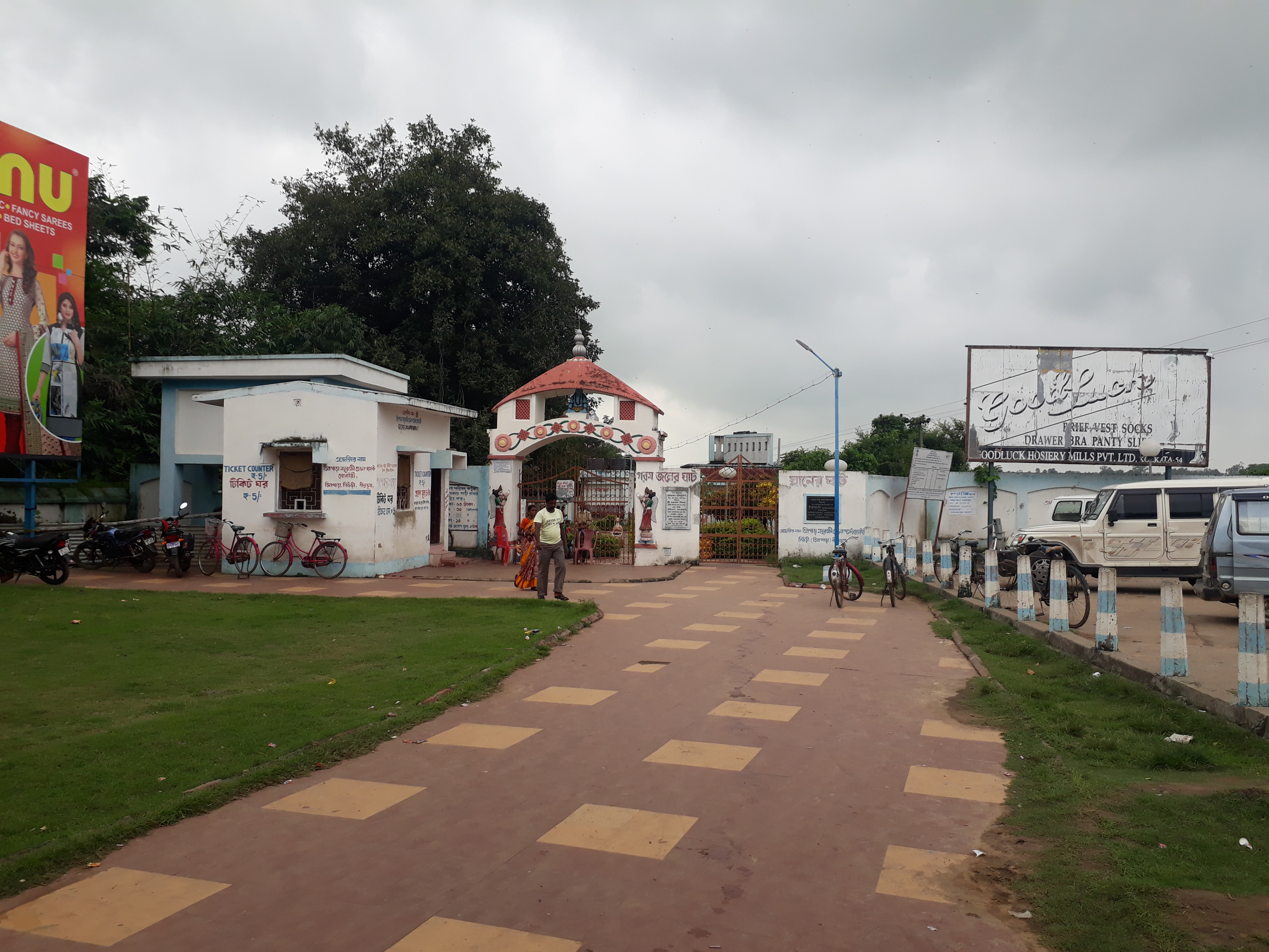 Bakreswar Temples and Hot spring in Birbhum, West Bengal